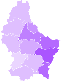 A map of cantons of Luxembourg after mergers of 2006-01-01, colour-coded by the altitude of the lowest point in the commune. The altitude is denoted by seven different shades of purple; in order of increasingly darker shades, the lower bounds (in m) are: 240, 220, 200, 180, 160, 140, 0.